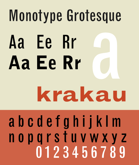 Specimen of the typeface Monotype Groteque. 24.02.07, Jim Hood.